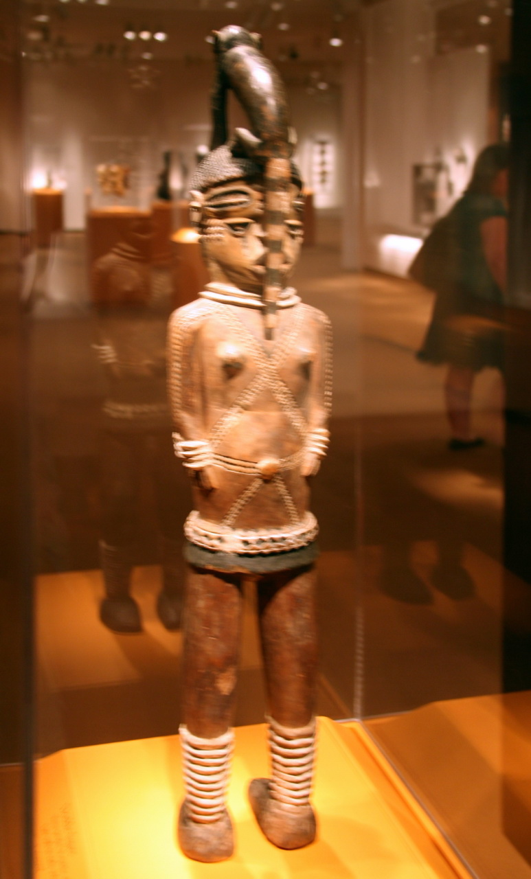 Double figure, Kuyu peoples, Republic of the Congo, Late 19th to early 20th century, Wood, pigment A colonial official during the early 20th century described Kuyu initiation rites in which carved male and female figures would be carried and displayed, each fashioned with the coiffure, scarification patterns, and ornaments of an ideal Kuyu adult. That may well be the context for this rare double figure. The animal atop the head is a panther, an animal that western Kuyu chiefs claim as a mythic ancestor. (National Museum of African Art)